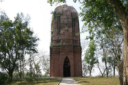 Jhater Deul Temple